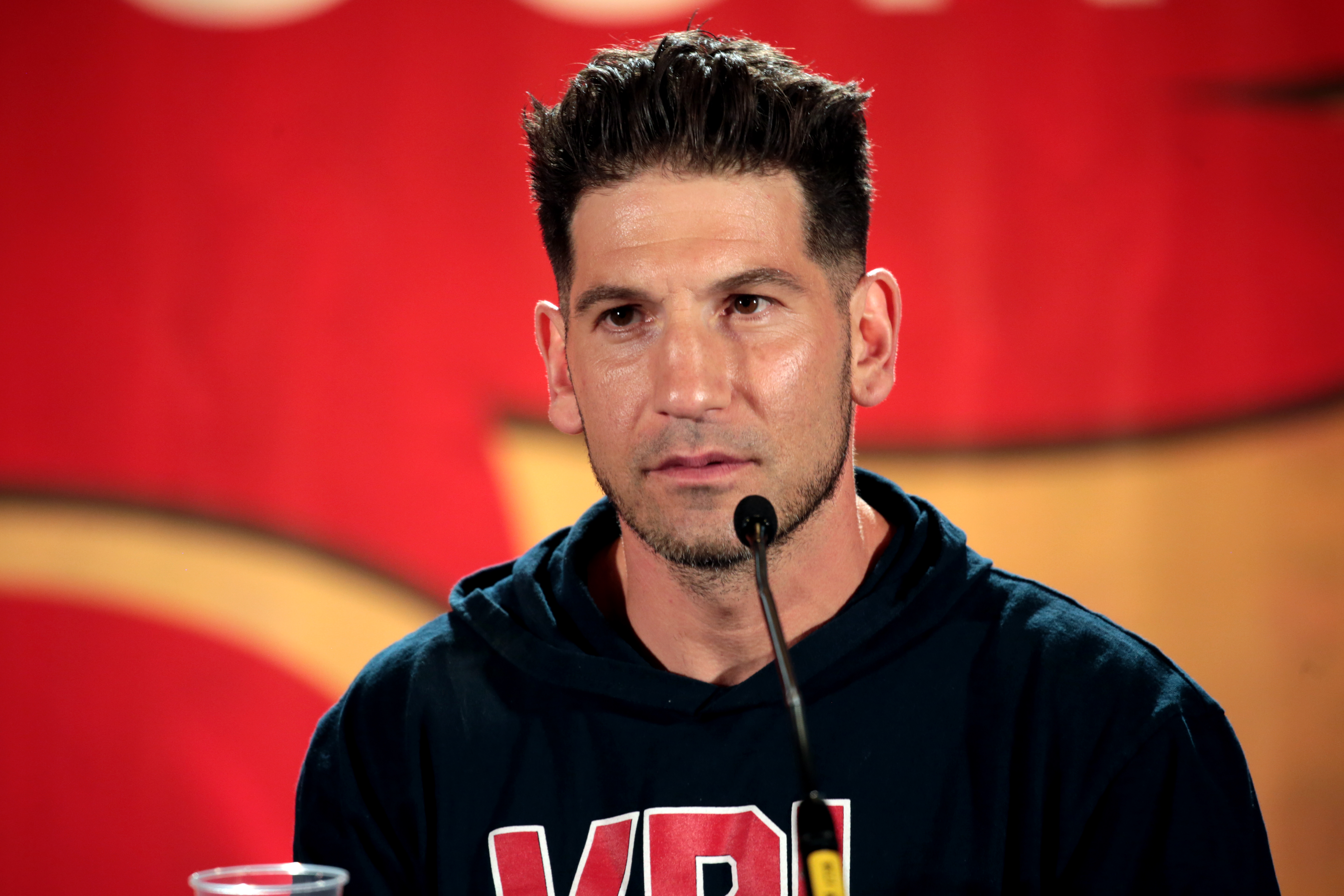 Jon Bernthal speaking at the 2017 Phoenix Comicon at the Phoenix Convention Center in Phoenix, Arizona.